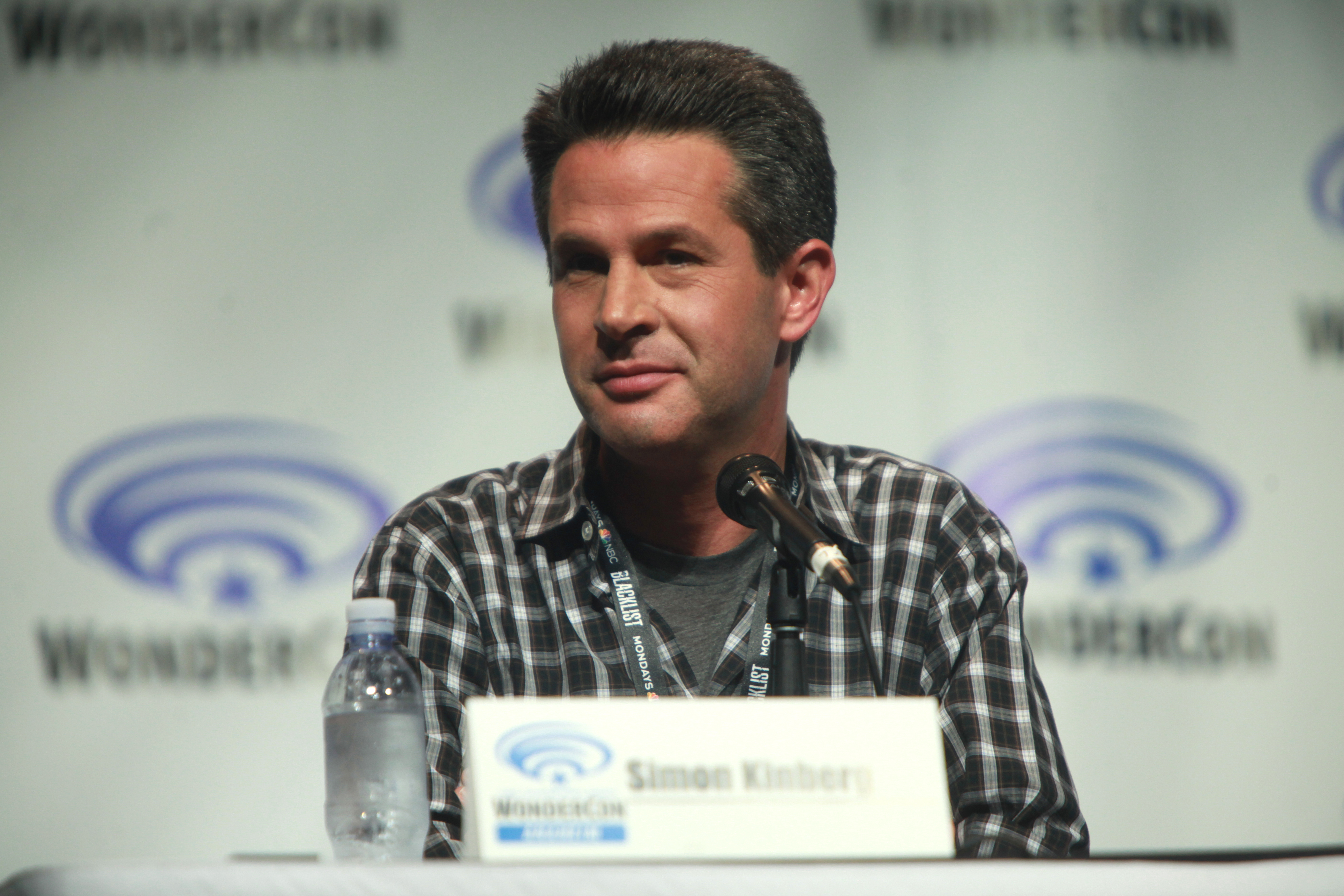 Simon Kinberg speaking at the 2014 WonderCon, for "X-Men: Days of Future Past", at the Anaheim Convention Center in Anaheim, California.